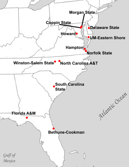 Locations of Mid-Eastern Athletic Conference full member institutions. Personal creation in Photoshop; All rights released to the public to do whatever they want with it.